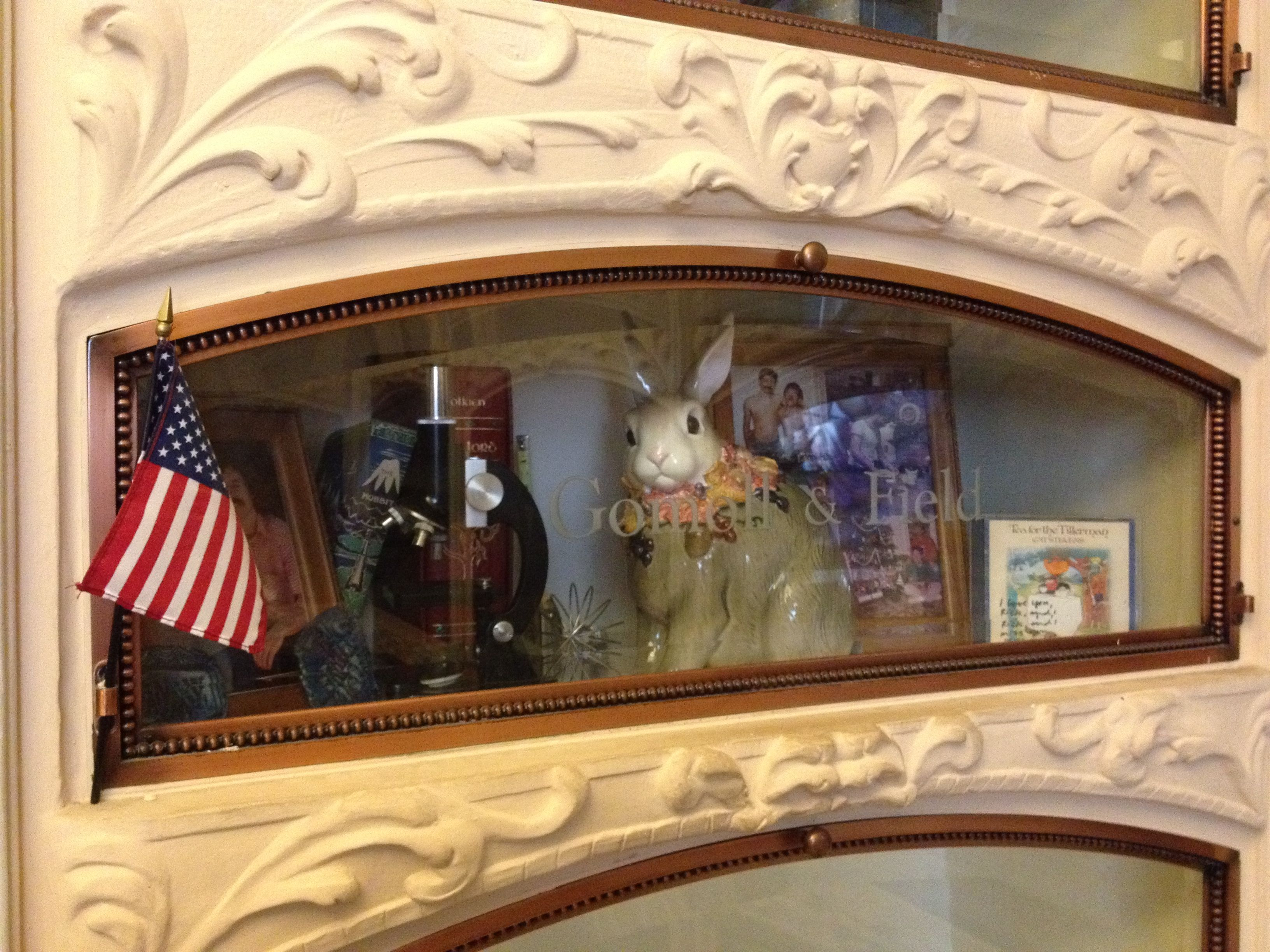 Neptune Society Columbarium of San Francisco, in February 2012.